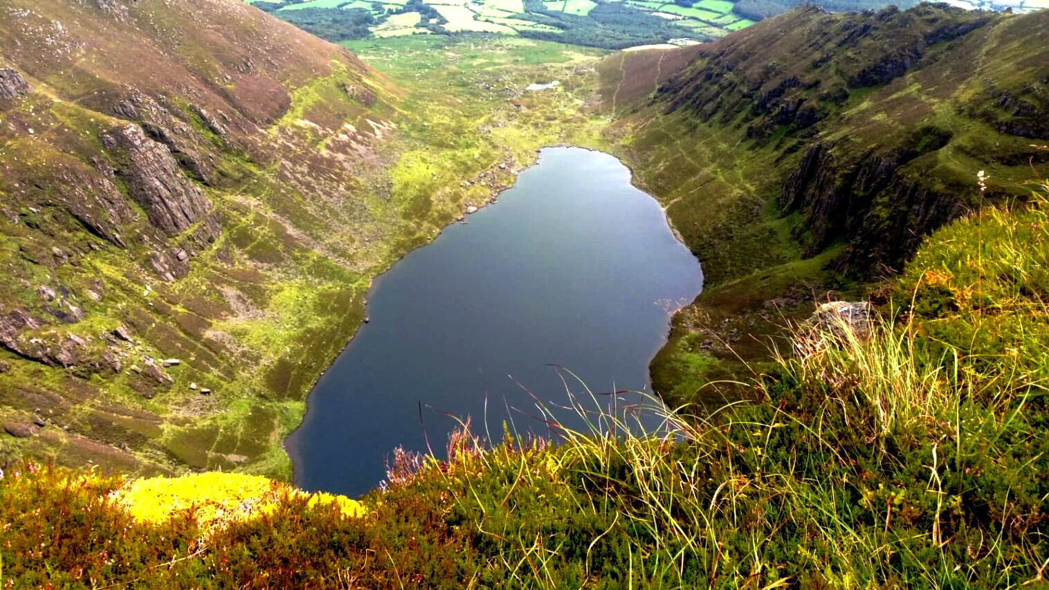 A mountain lake